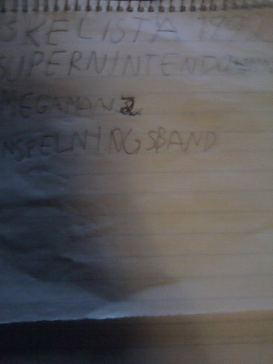 With list made by me for Christmas 1992. It says: 1. Super NES 2. Mega Man II 3. Tape (either Compact Cassettes or videotape) for home recordings